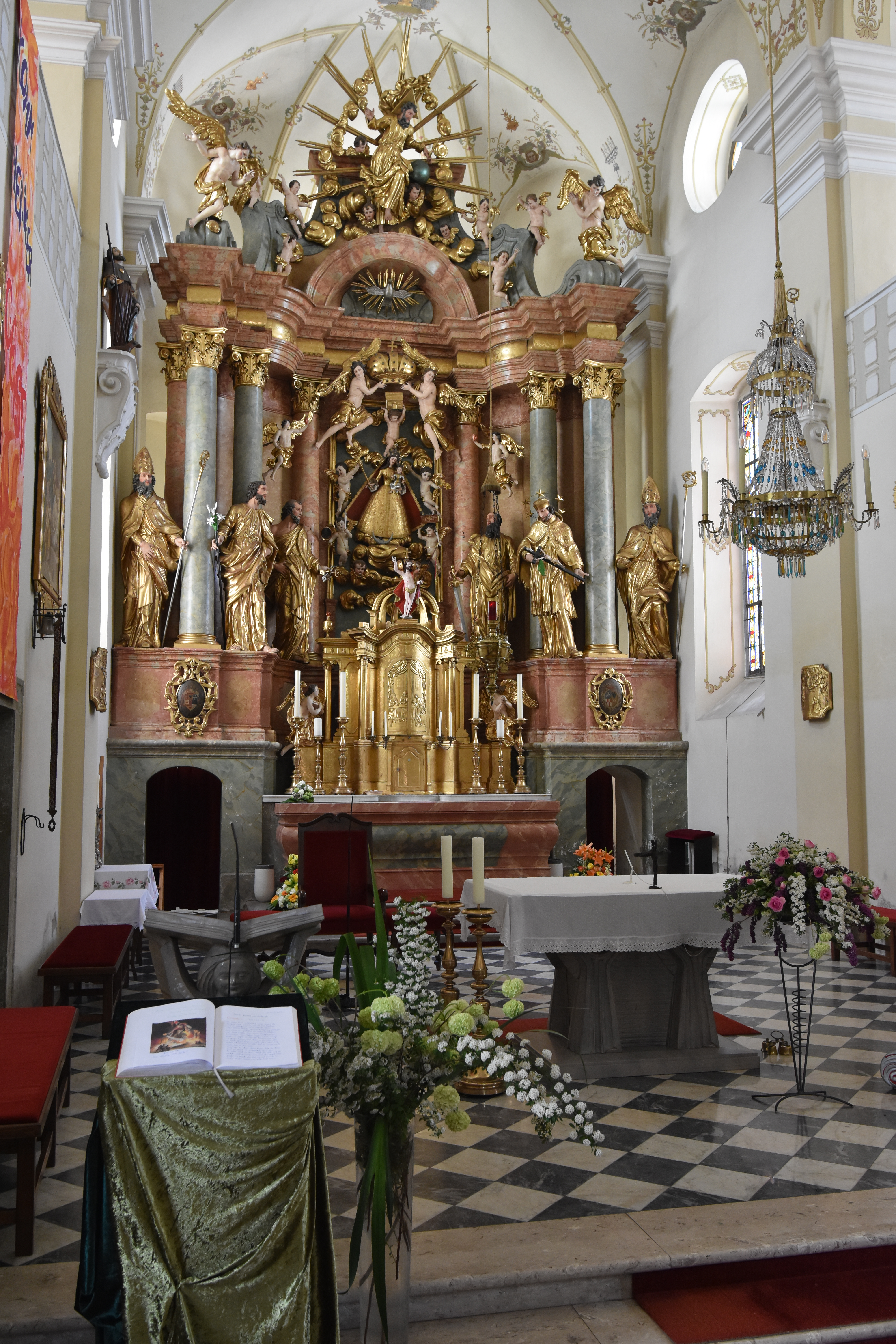 Church of the Nativity of the Virgin Mary (Arnfels) - Interior